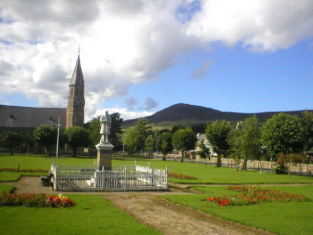 Rhynie Village Green, the church and the Tap O'Noth in the background, Aberdeenshire